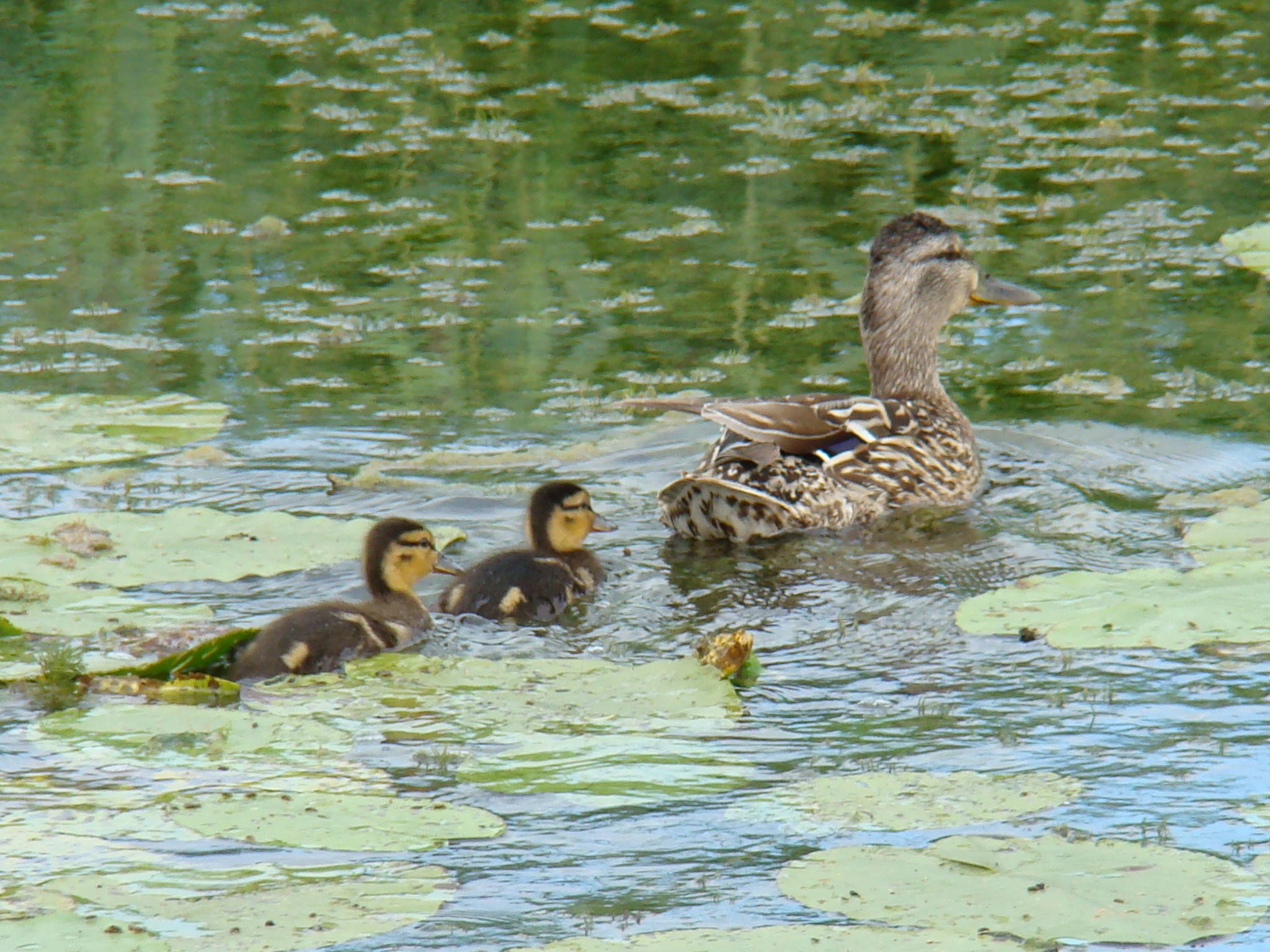 Photo of the Mallard family (Anas platyrhynchos) in in Raizgiai, Siauliai, Lithuania.